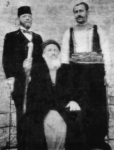 Chief Rabbi Jacob Saul Dwek, Hakham Bashi of Aleppo, Syria, 1908. Made available here: Photographed by Reverend J.Segall. Copy of a photograph by the Rverend J.Segall,Missionary in Damascus for over Quarter of a century,from his book Travels through Northern Syria,published in 1910. The photograph shows the Rabbi { Hakham } of Aleppo with his secretary in western clothes, boe-tie and a fez,to his left is his Kawas {body guard }, in his traditional uniform.